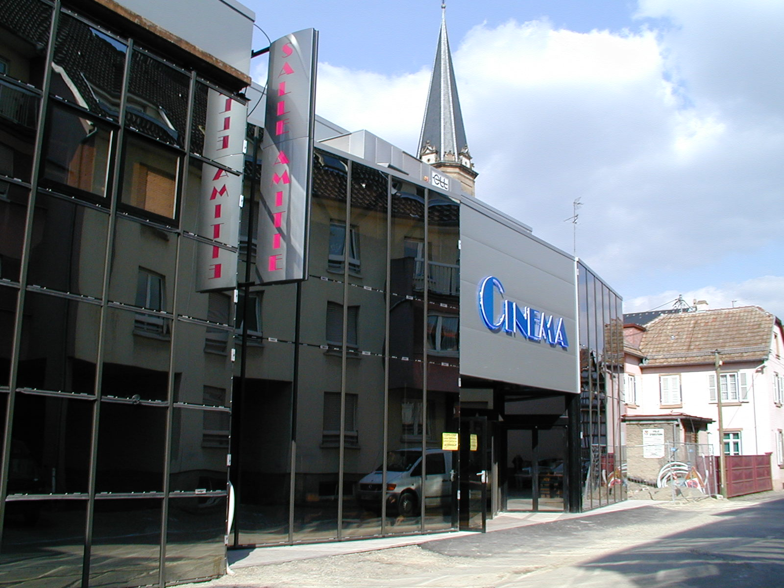 Entry of Erstein Movie Theater